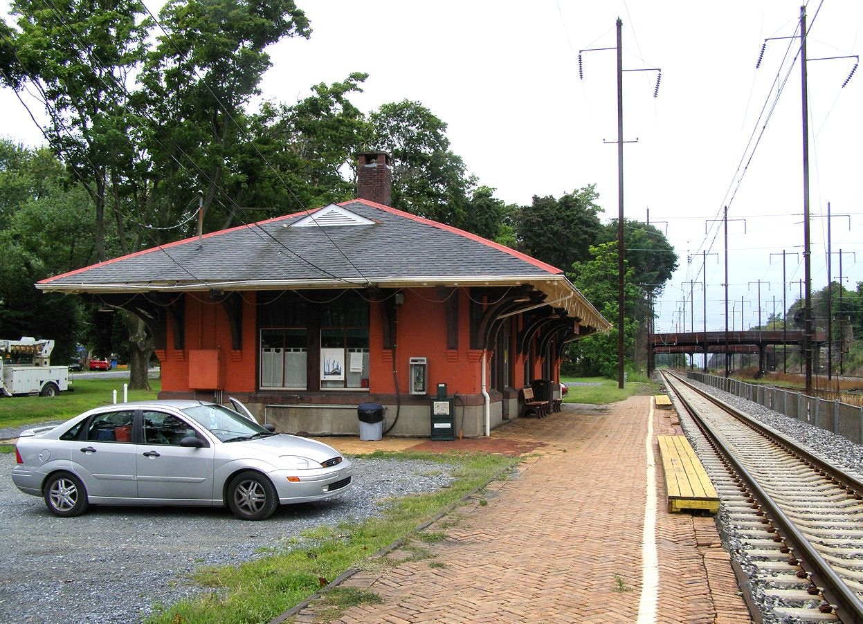 AmtrakParkesburg Station on the eastbound Track 1.